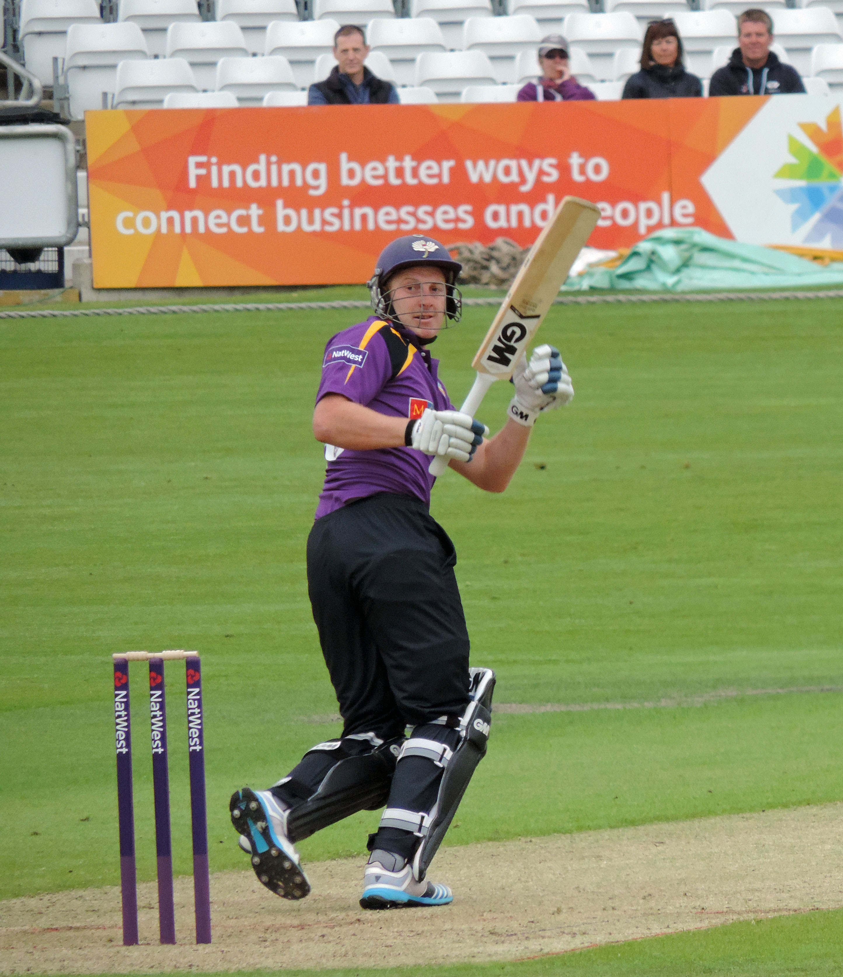 Some pictures from the Twenty20 match between Yorkshire and Derbyshire at Headingley last week; not a great result for me, with Derbyshire losing out by some distance. Yorkshire's captain, Andrew Gale.